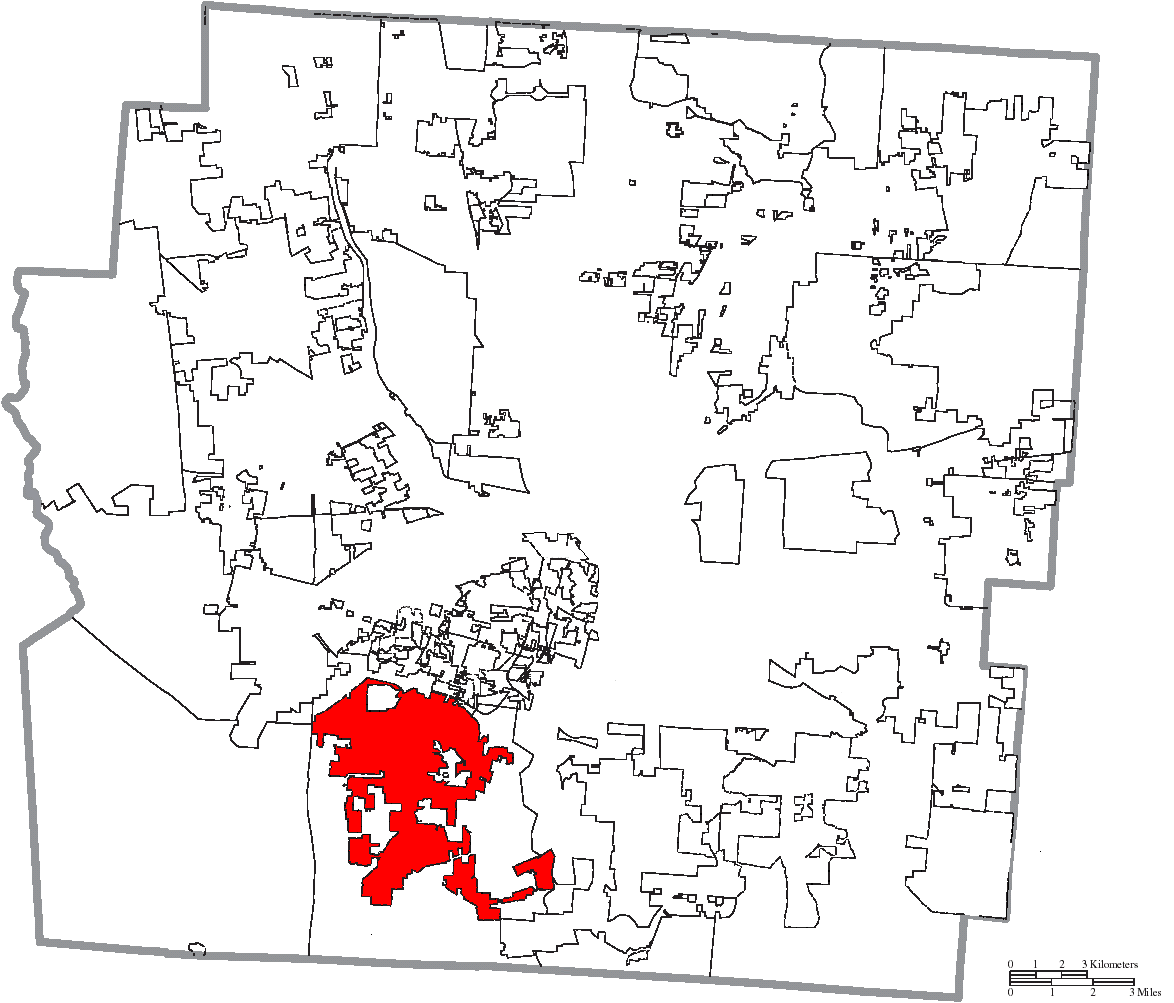 Map of the municipal and township boundaries of Franklin County, Ohio, United States, as of the 2000 census, with the location of the city of Grove City highlighted. Township borders are shown only in unincorporated areas in order to differentiate incorporated and unincorporated areas more clearly. Due to the extremely fractured nature of the county's municipal boundaries, details of boundaries and the identity of township islands may be inaccurate.